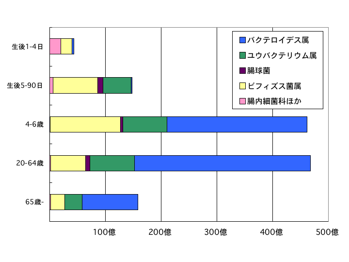 composition of human fecal microflora with Japanese annotation